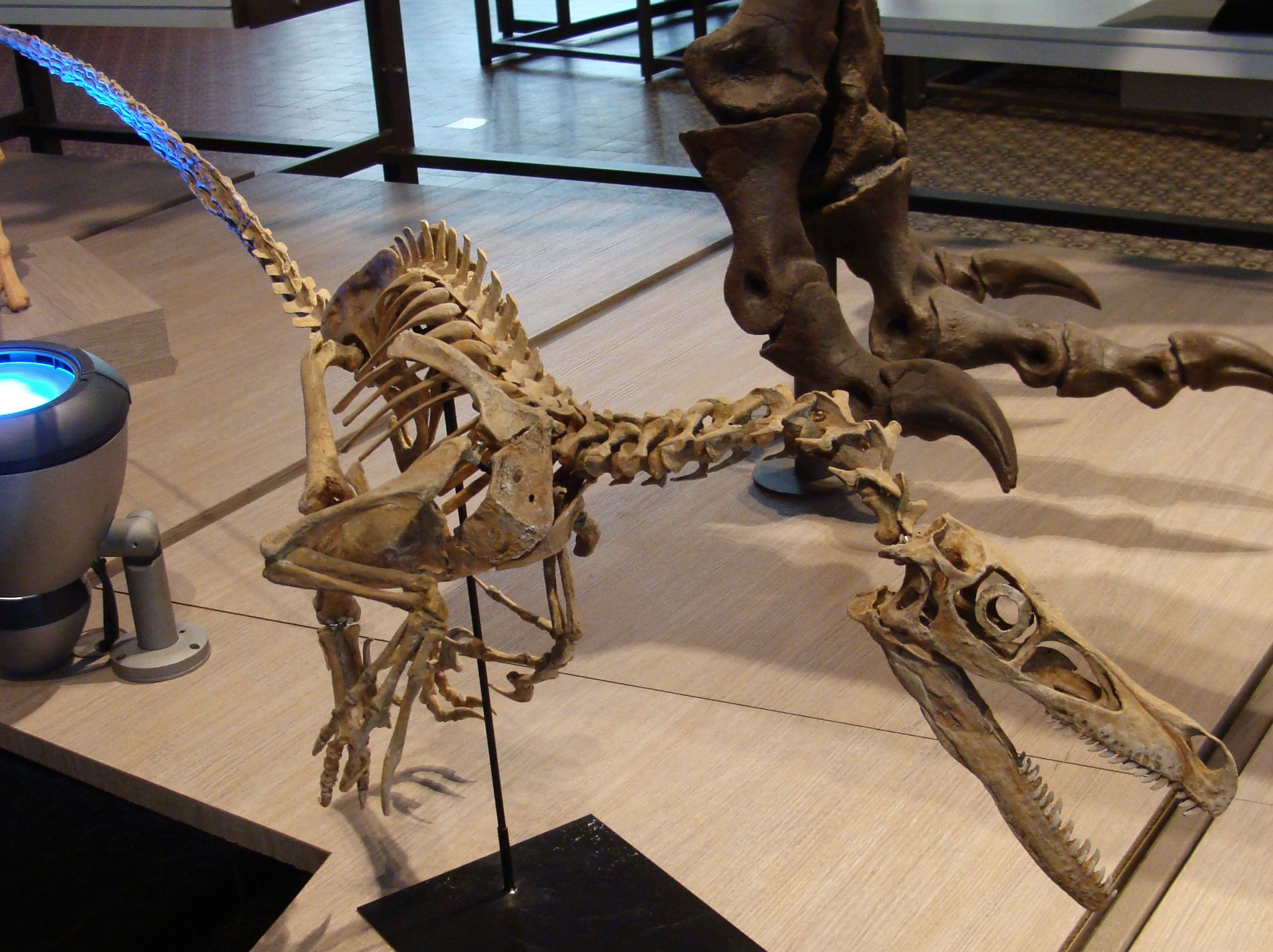 Velociraptor in the Royal Belgian Institute of Natural Sciences.